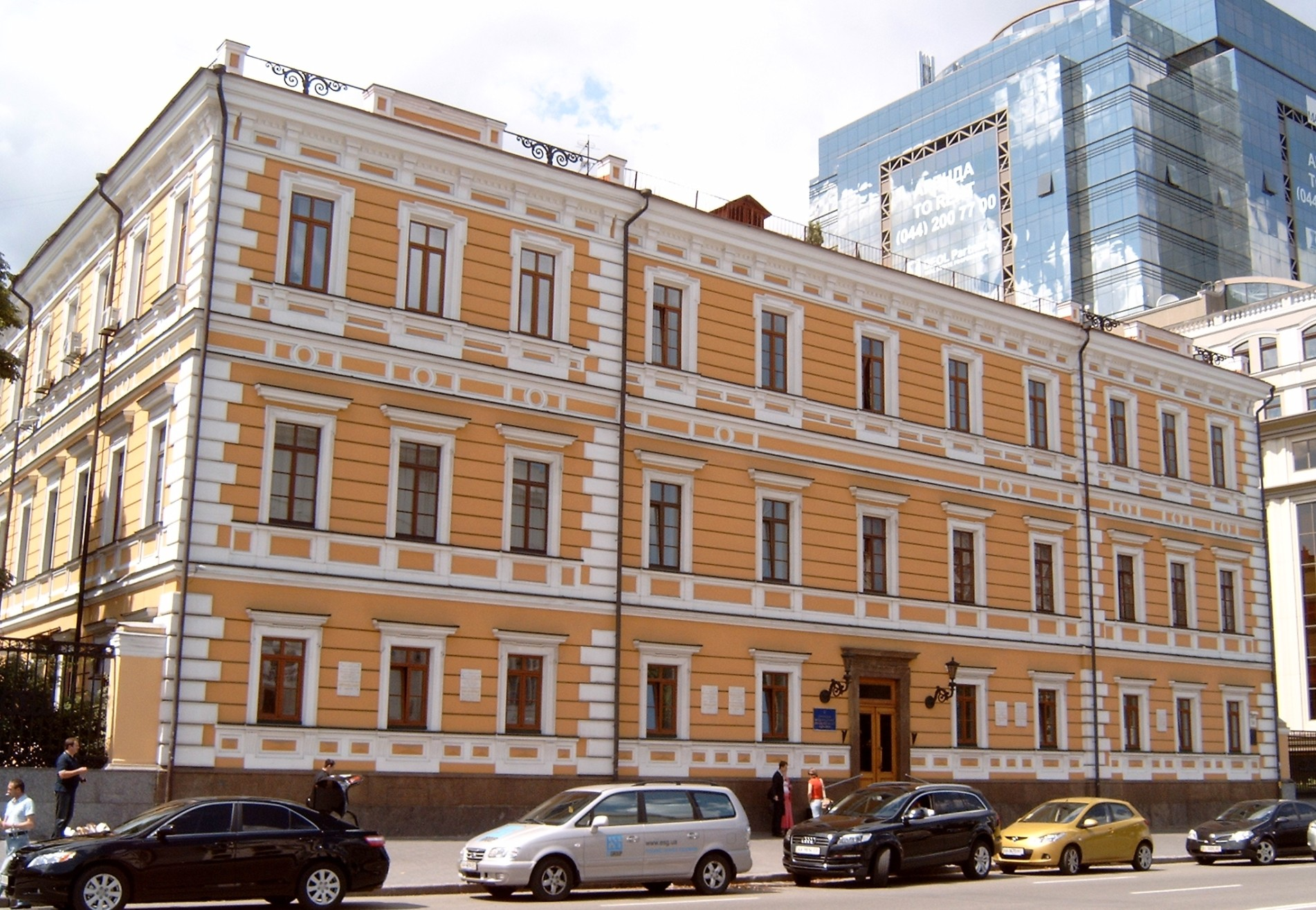 The headquarters of the National Academy of Sciences of Ukraine in Kyiv, Ukraine